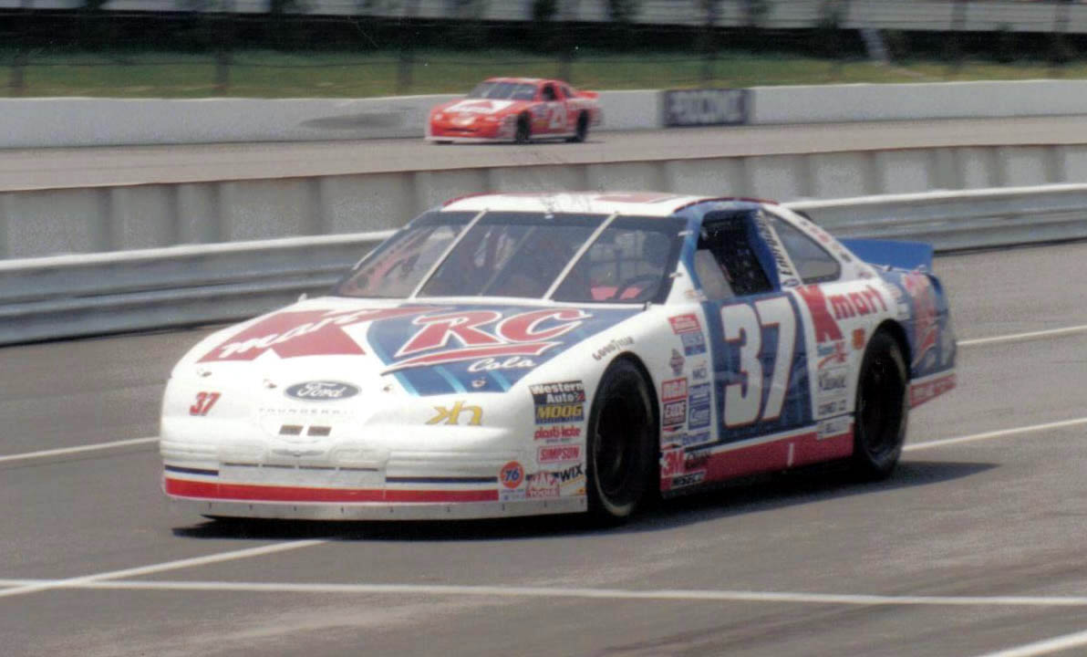 NASCAR driver Jeremy Mayfield at Pocono in 1997.